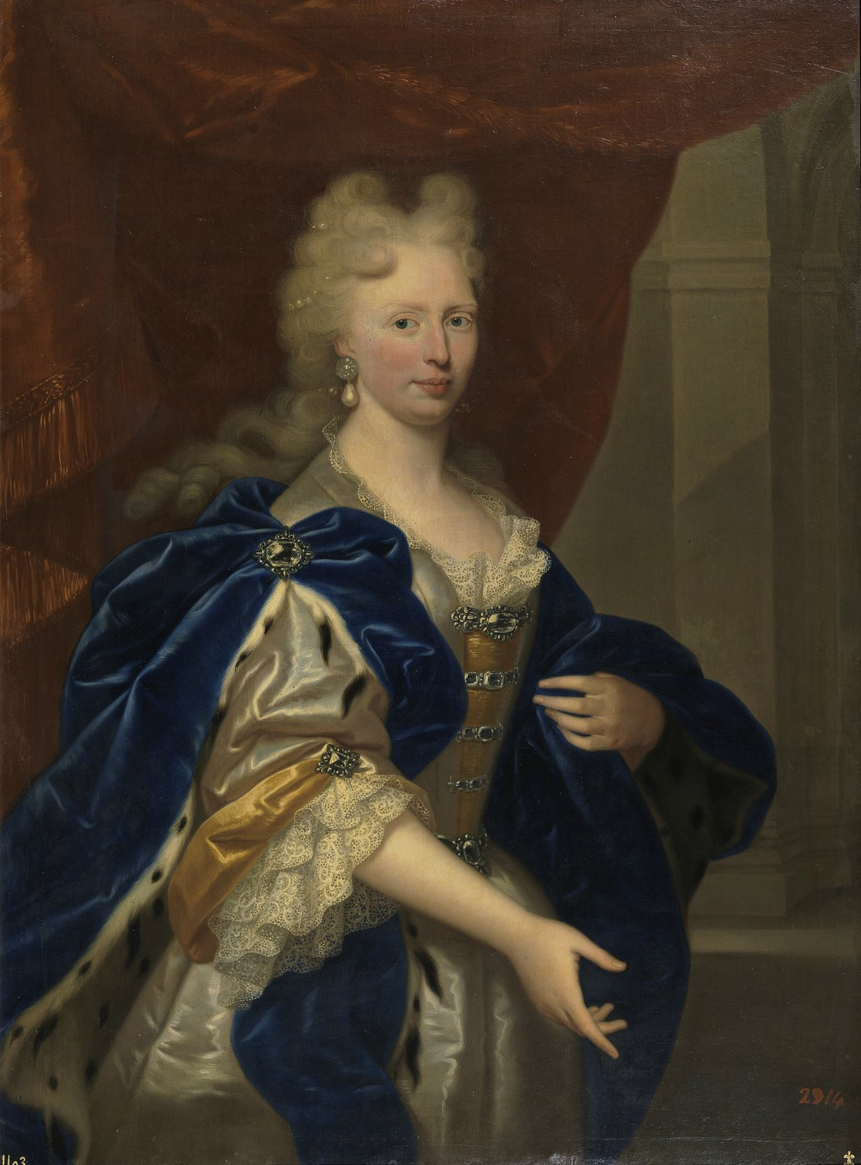 Dorothea Sophie of Neuburg (1670-1748), duchess of Parma